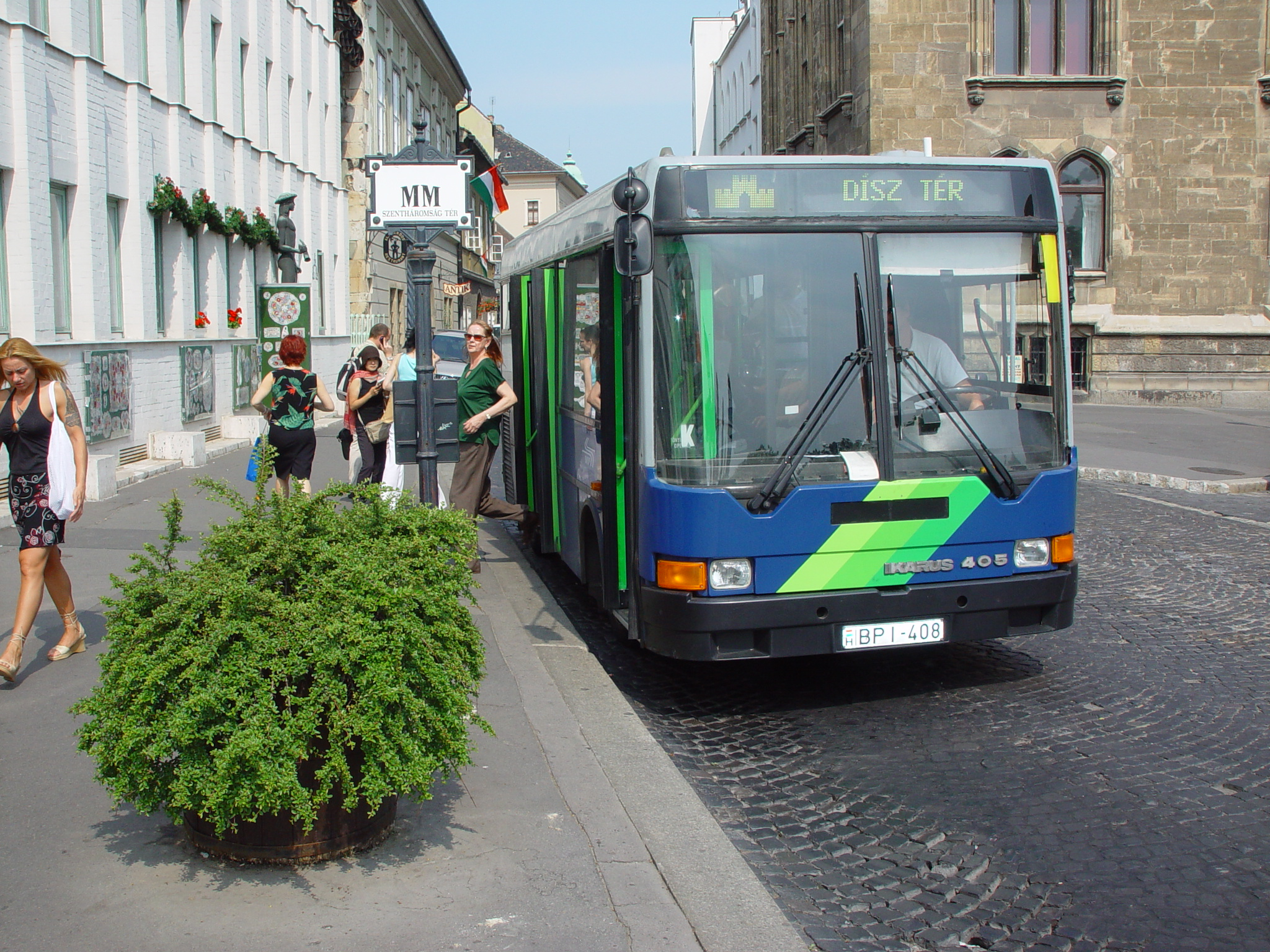 An Ikarus 405 midibus in the streets of the Buda Castle (at the bus stop "Szentháromság tér")